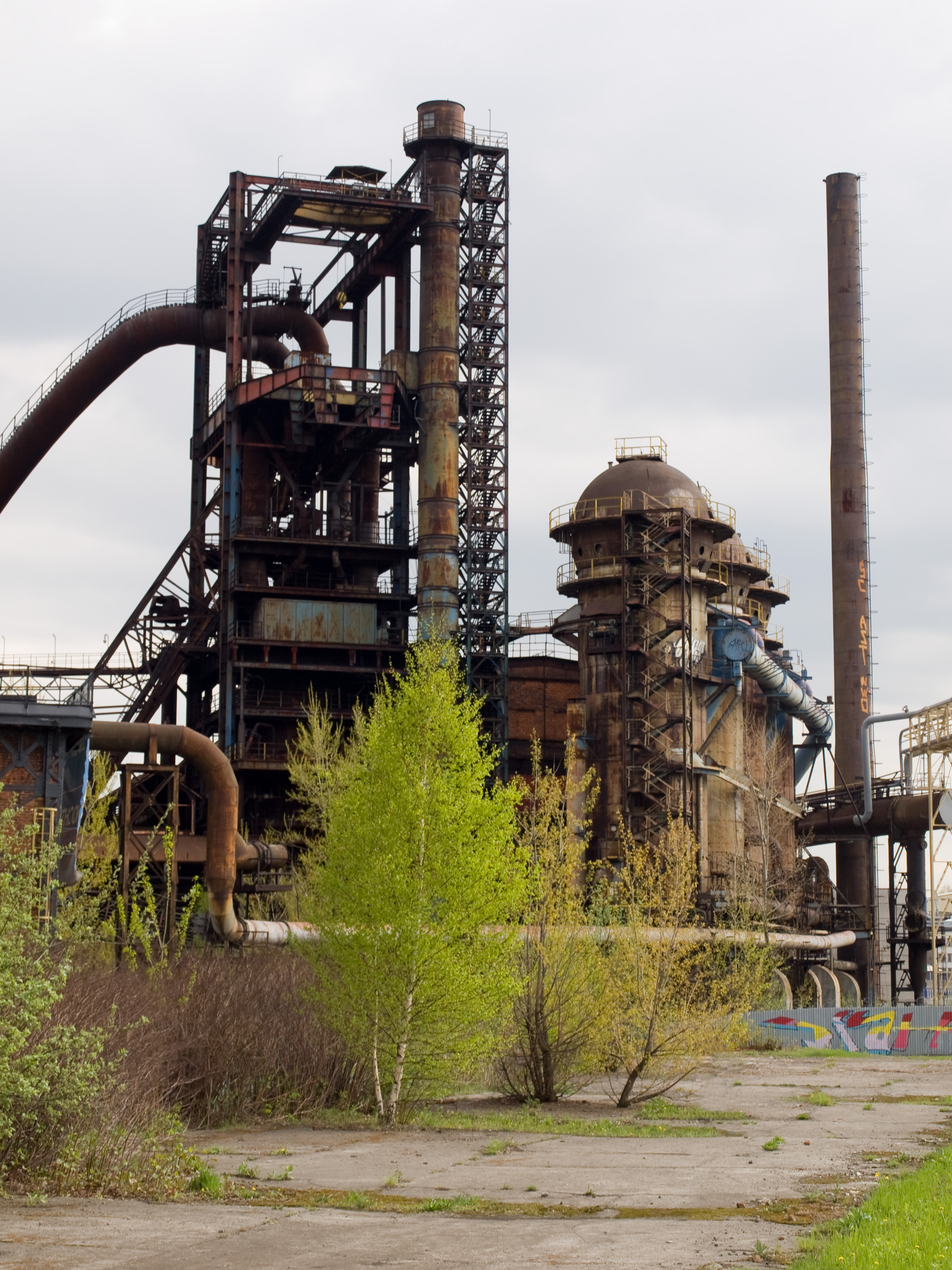 Blast furnace in area of „Hlubina“ mines in Ostrava–Vítkovice